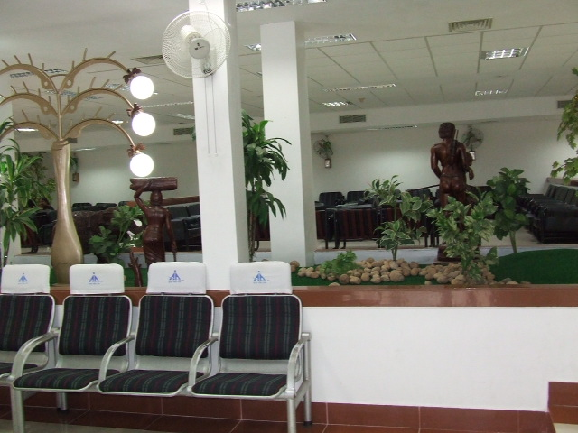 Domestic Lounge of Trivandrum International Airport